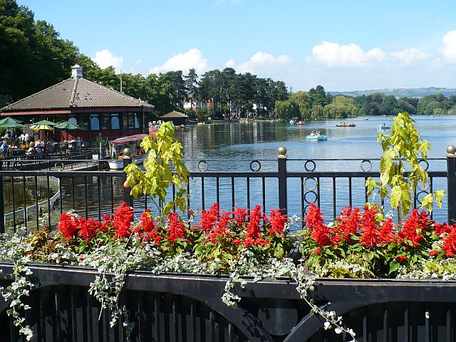 Roath Park Lake, Cardiff, Wales